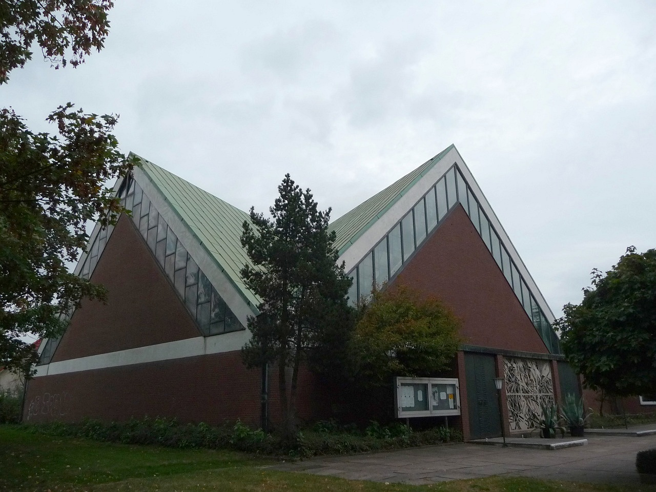 kath. church St. Josef in Bremen-Groepelingen